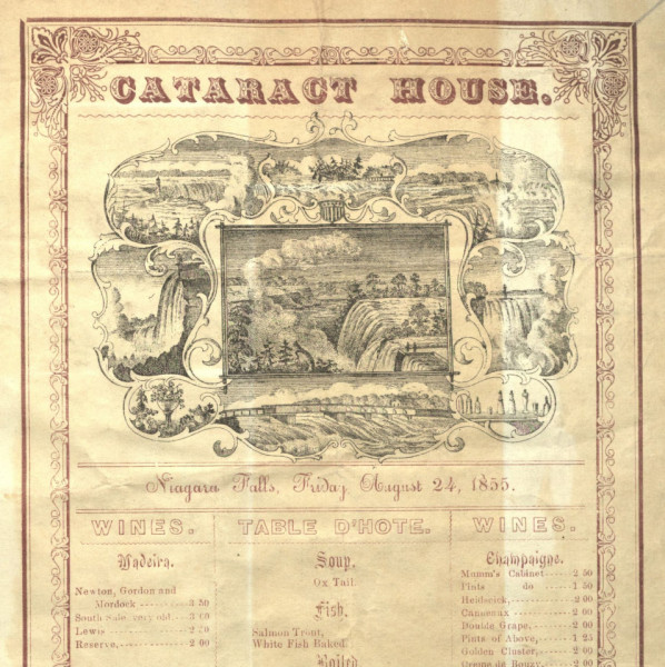 Menus from hotels, restaurants, and steamboats in the 1850s and 60s. The name WHITNEY, JERAULD & CO., is displayed at the bottom of this menu.